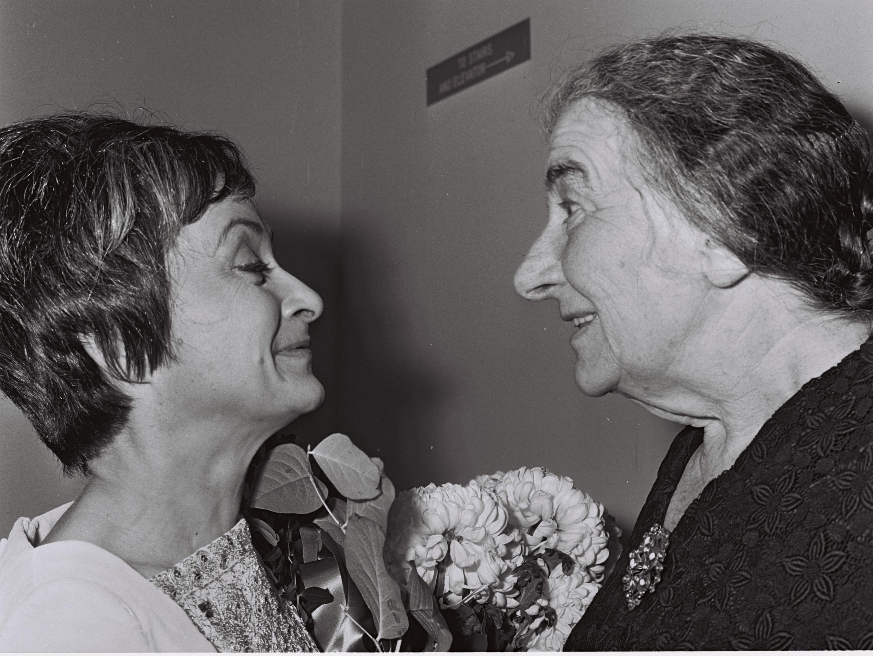 P.M. Golda Meir greeting the Jewish singer Nehama Lifshitz after a concert at the Lincoln Center in New York.